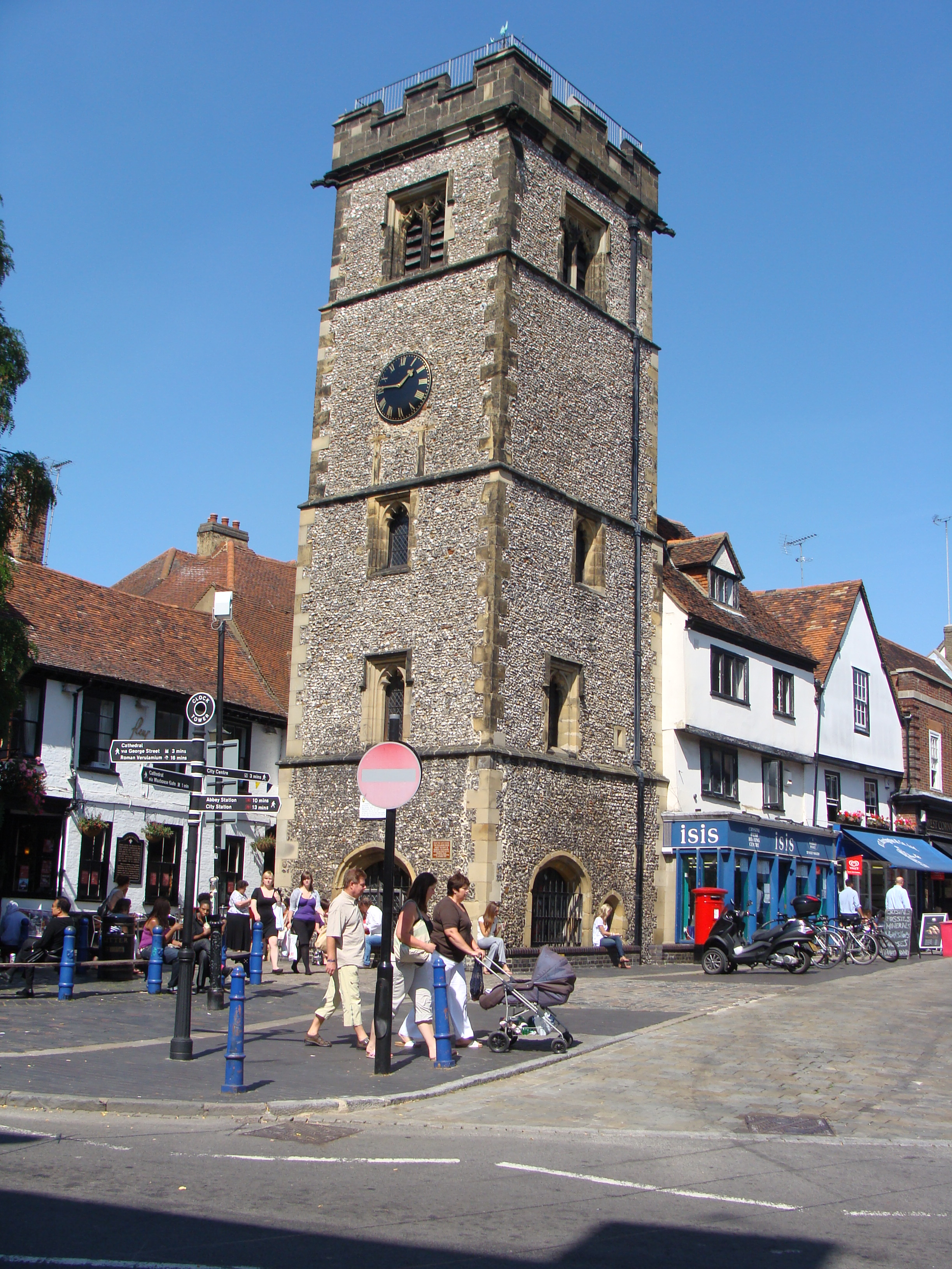 Clock Tower in St Albans, Hertfordshire, England